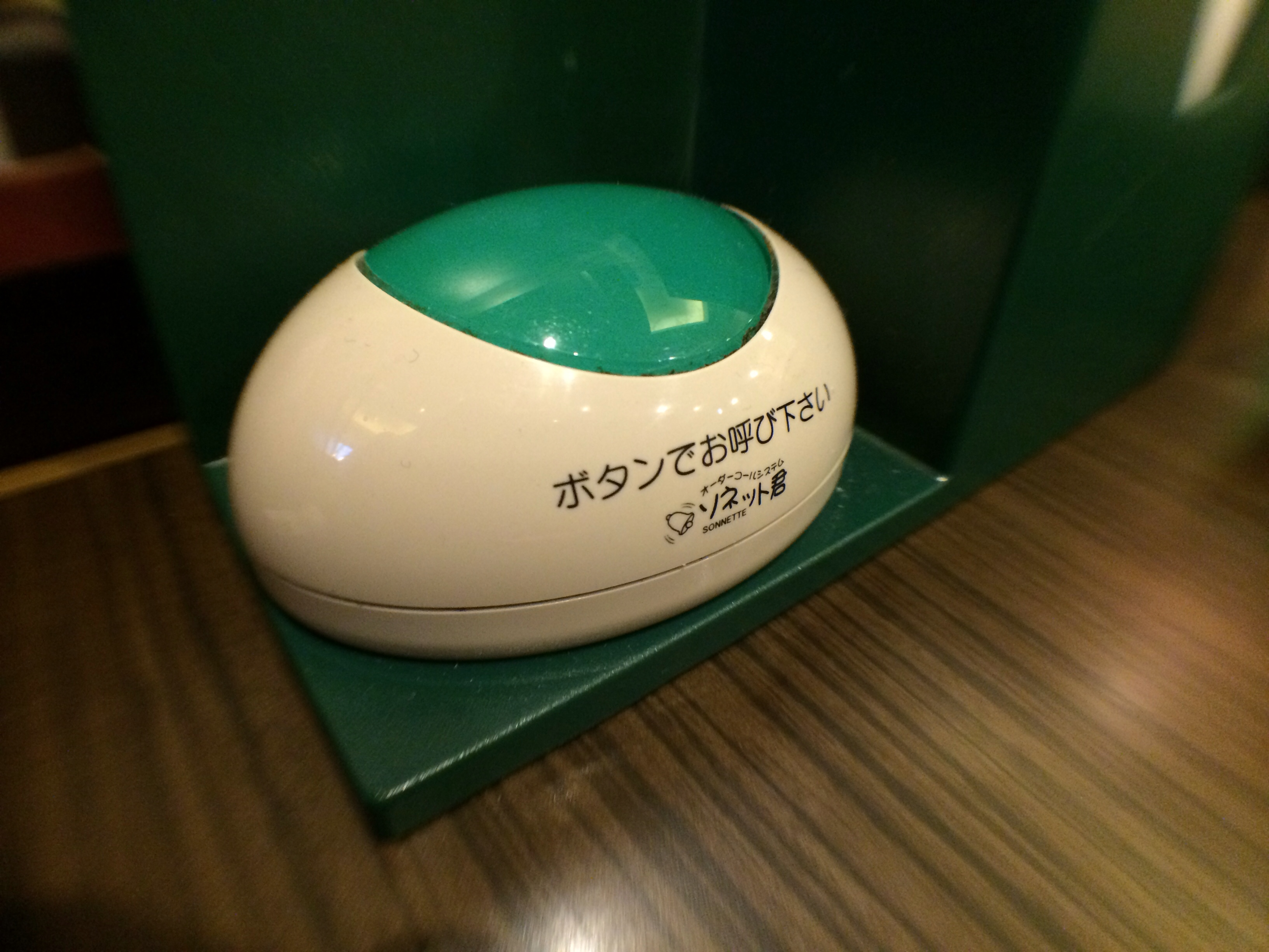 Best service invention EVER